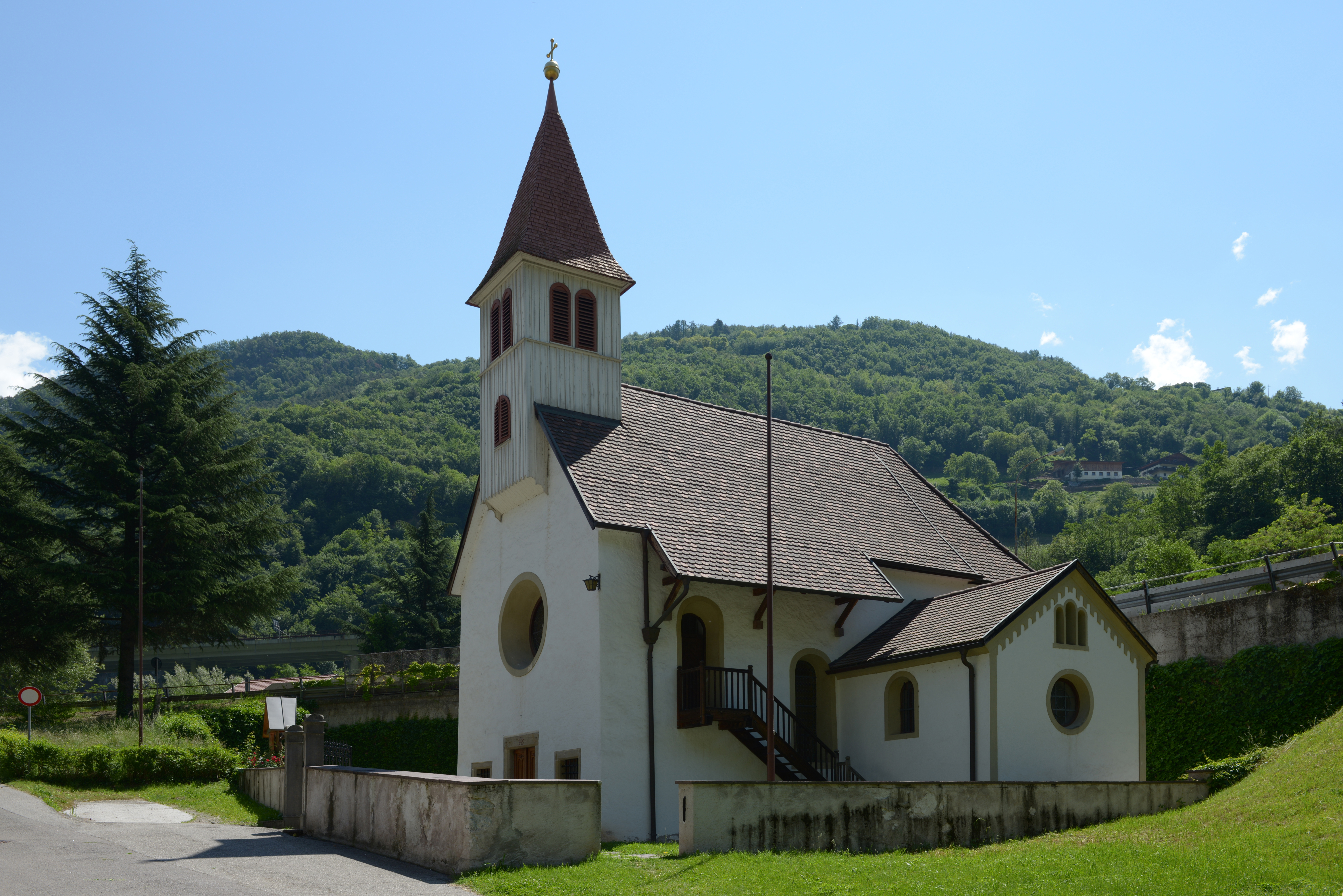 Parish church Saint Josef in Atzwang